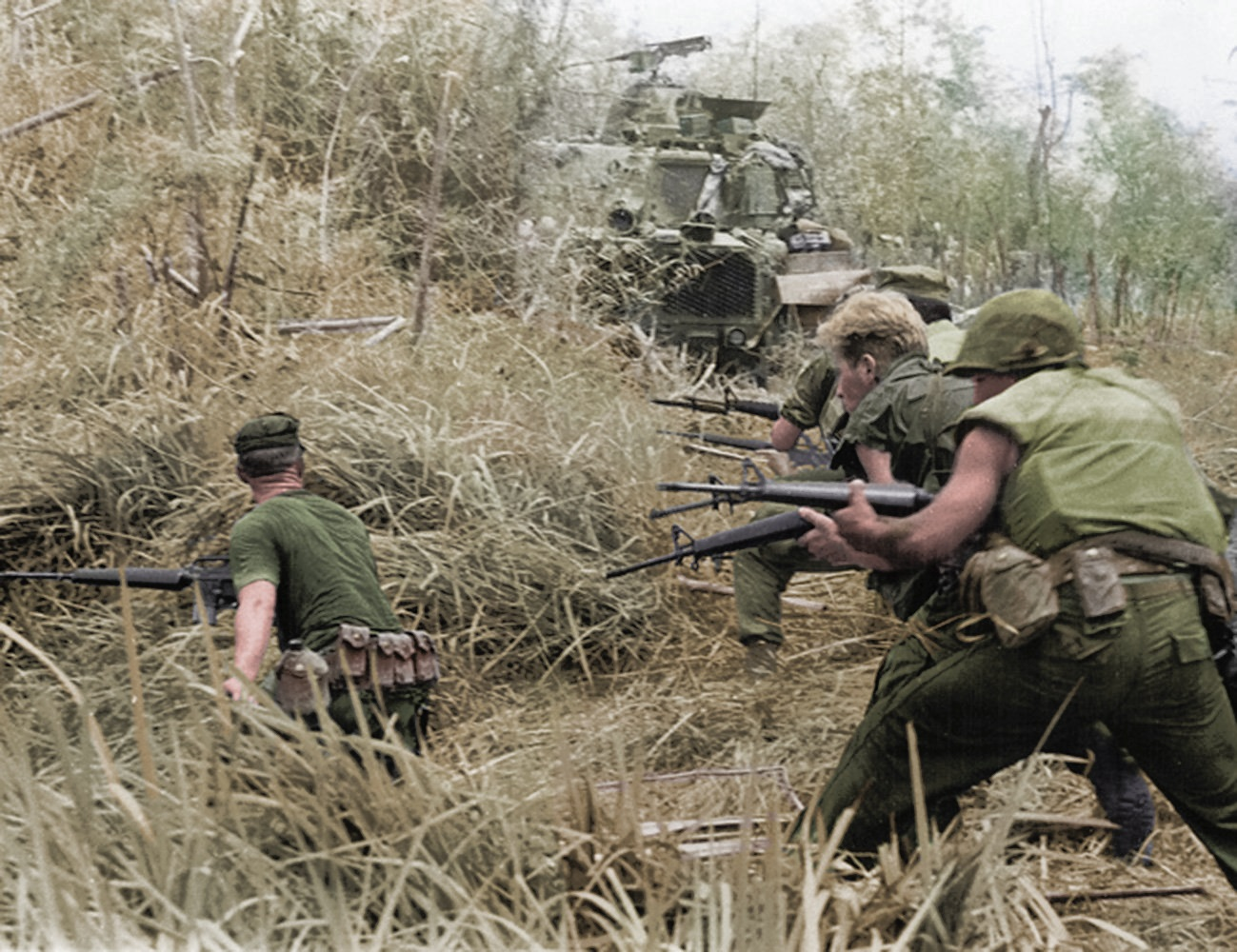 U.S. Marines with Company G, 2d Battalion, 7th Marines, direct a concentration of fire at the enemy during Operation Allen Brook